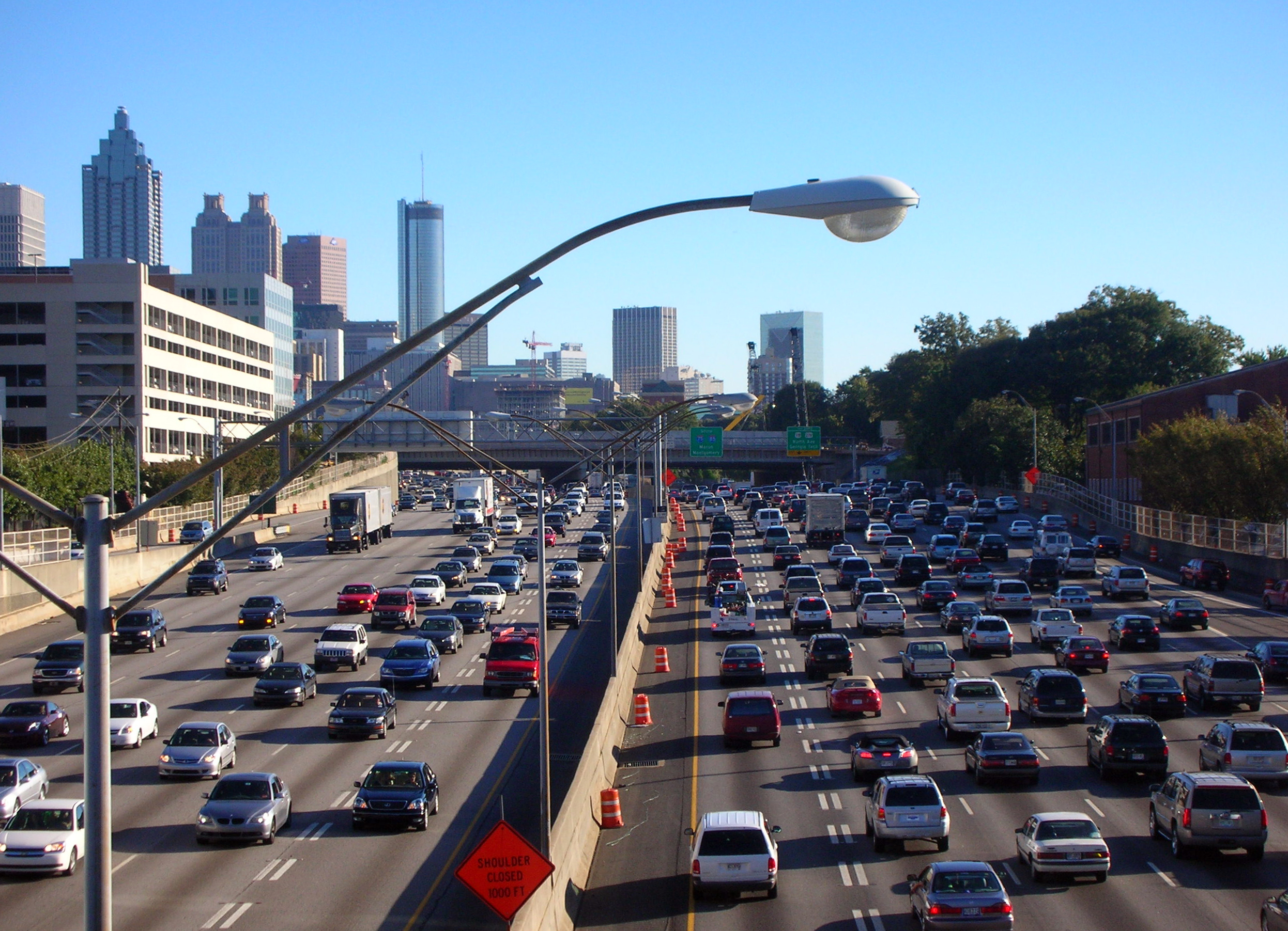 I-75 co-signed with I-85 in midtown Atlanta. Downtown Connector view of the Downtown skyline. Interstate 75/85 in Atlanta, Georgia, is a typical urban freeway in United States.